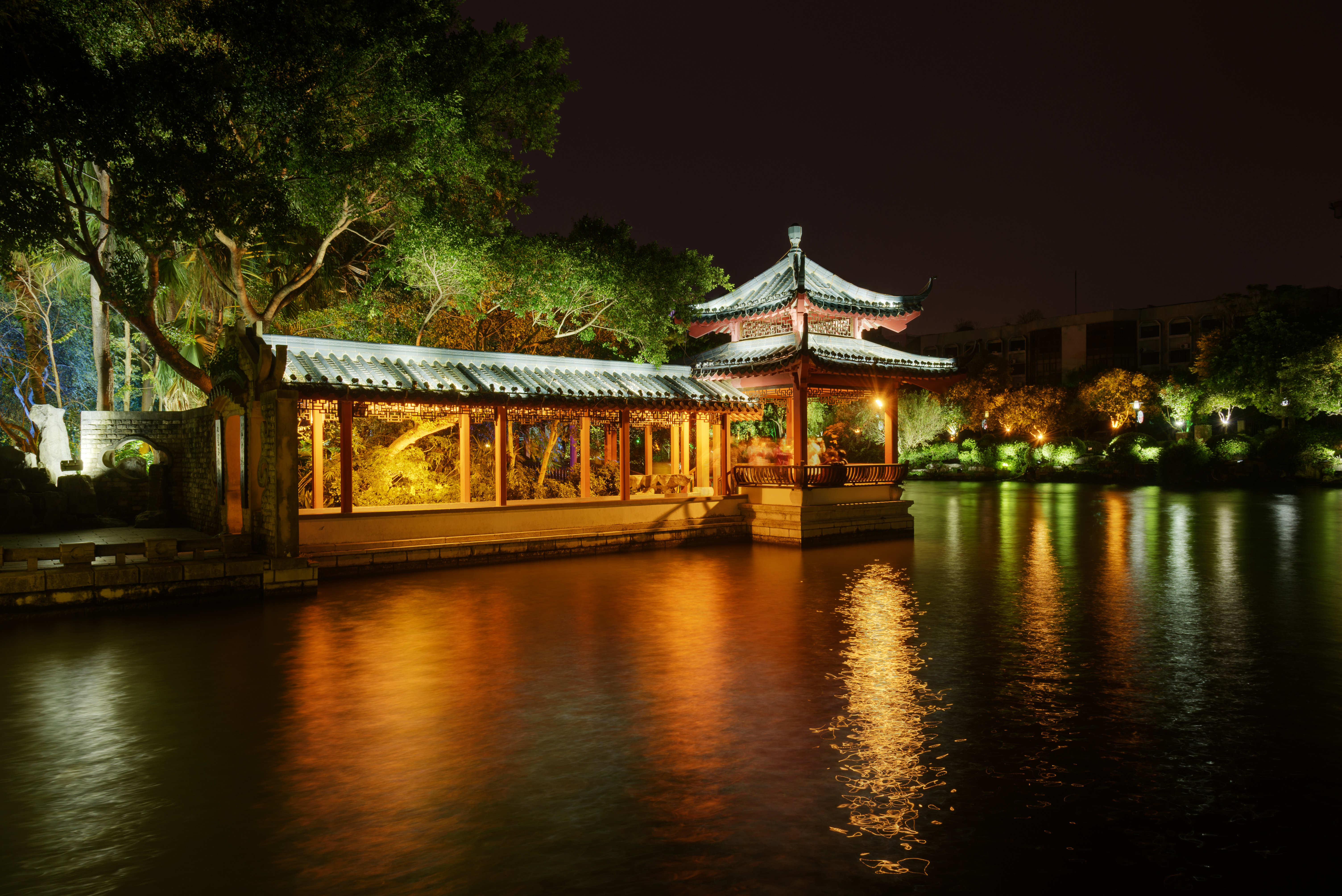 Corridor and pavilion, Ronghu Lake, Guilin. HDR composed of three exposures of 1/2, 2, and 8 sec at f/11.